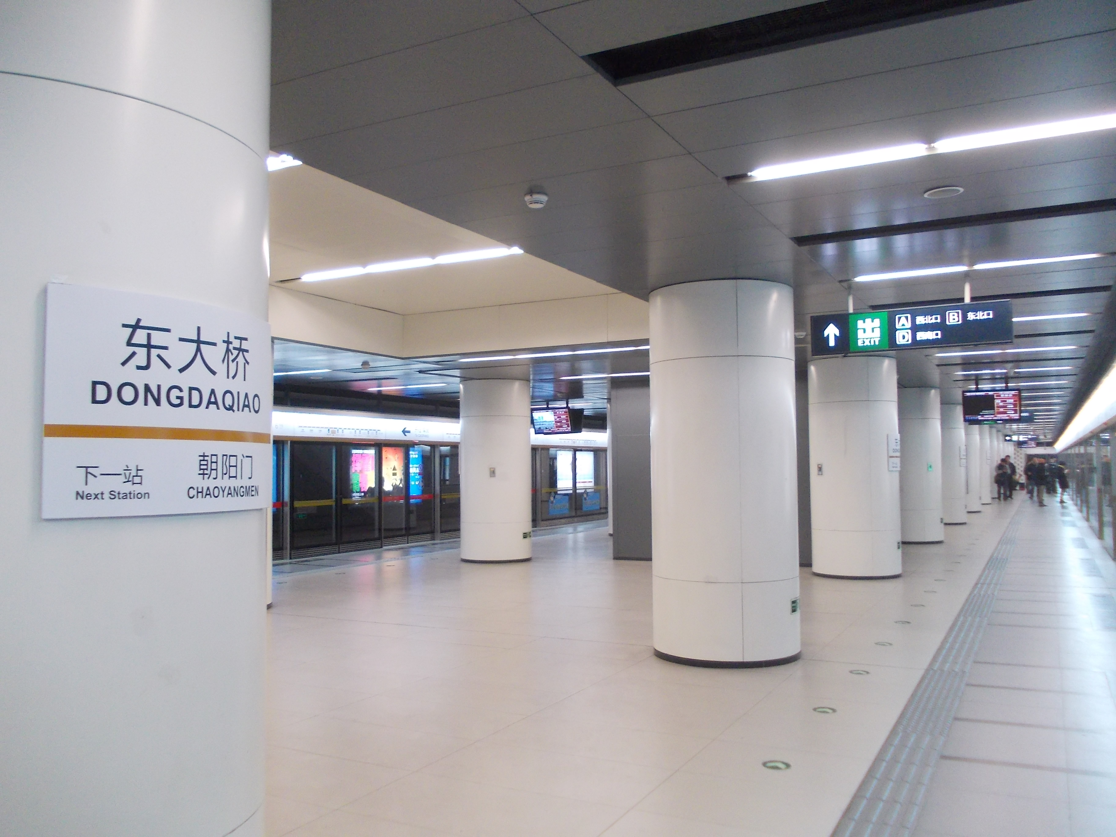 Beijing Subway - Dongdaqiao - Platform